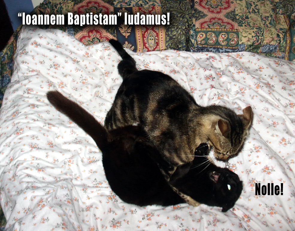 A Lolcat in the Latin language. Let's play "John the Baptist"!... Do not want!